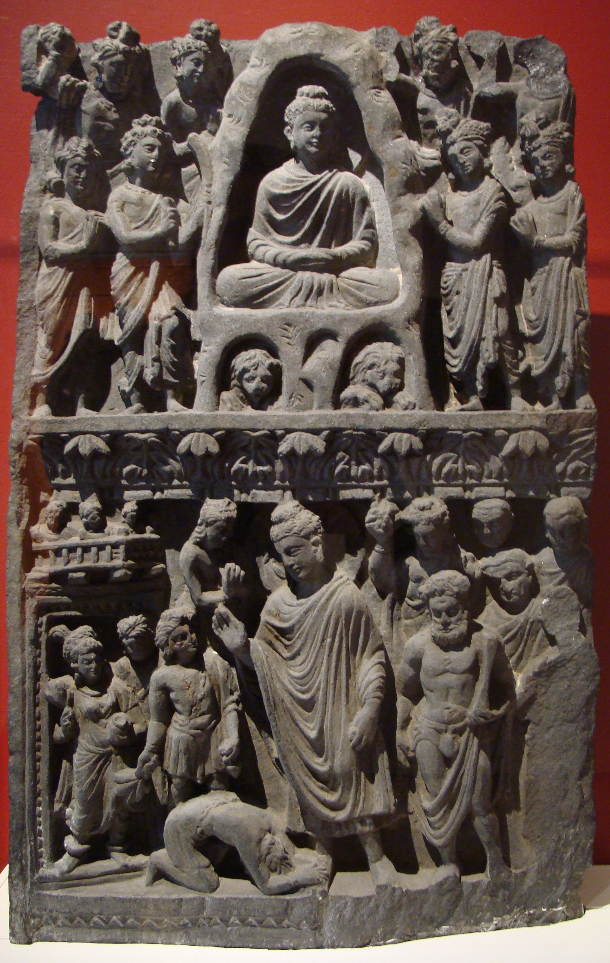 Relief with Buddha Śākyamuni Meditating in the Indrashala Cave (top) and Buddha Dipankara (bottom), Gandharan region, Kushan period, 2nd-3rd century, Art Institute of Chicago, James and Marilynn Alsdorf Collection, 180.1997